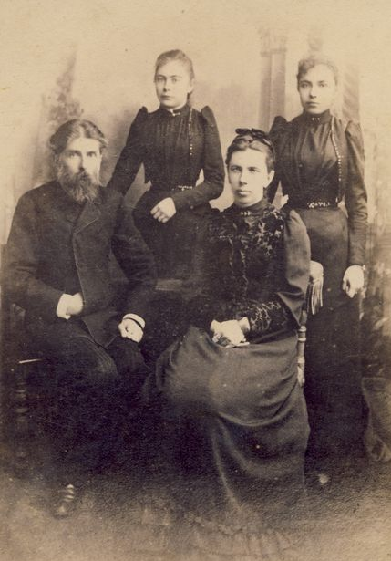 Felicija Bortkevičienė (standing on right) with her sister Juzefa Povickaitė-Okuličienė (standing on left), mother Antanina Povickienė and father Juozas Povickis